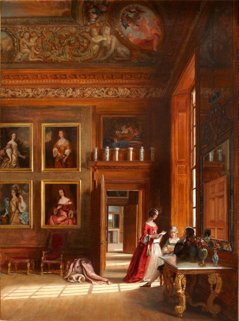 "The King's Bedchamber at Hampton Court Palace", by James Digman Wingfield.